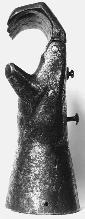 First Hand of Florence, oldest known Iron Hand (hand prosthesis), 2nd half of the 15th century, Stibbert Museum, Florence (Italia), No. 3817.